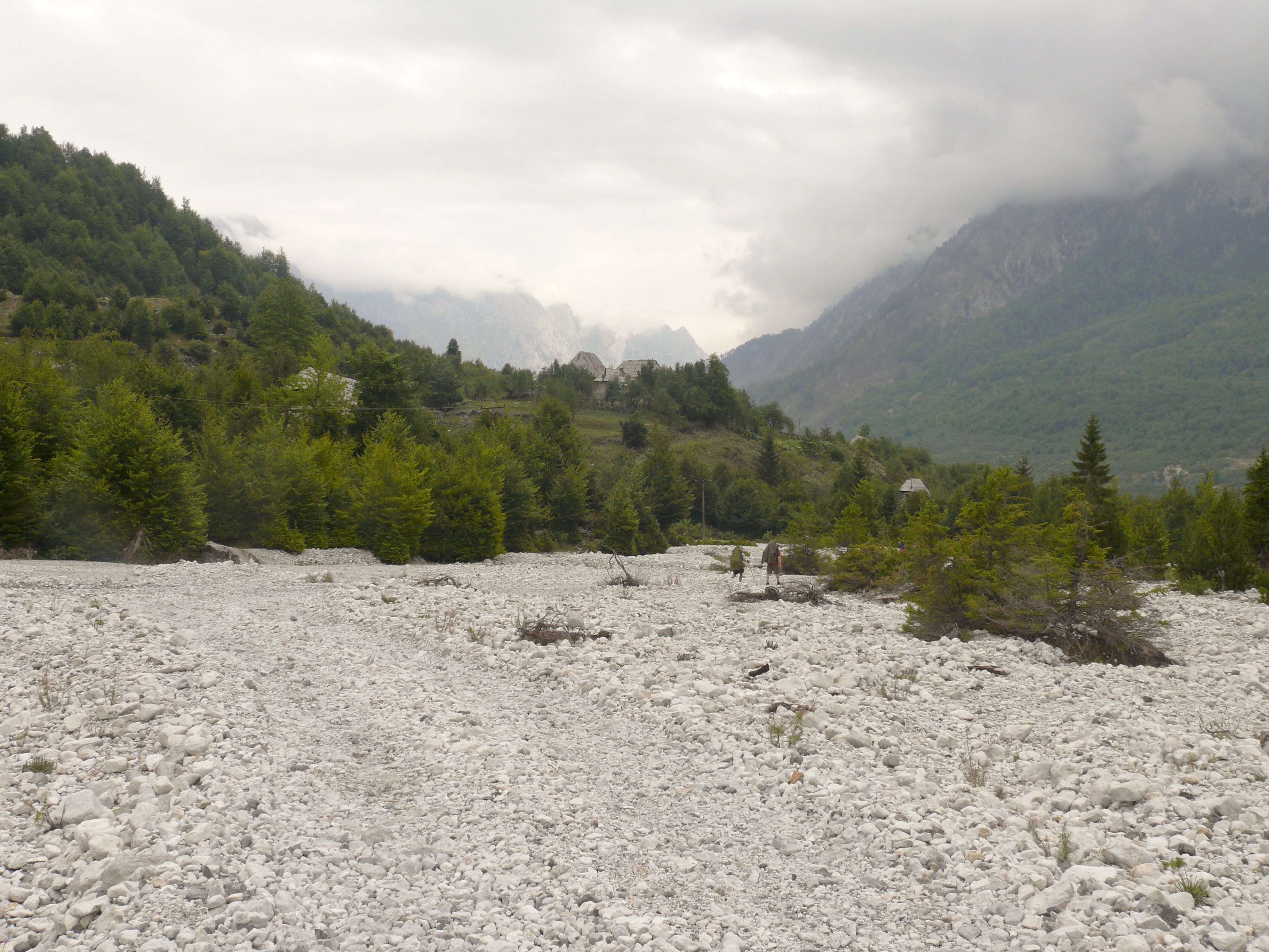 Village Rragam in Valbona Valley